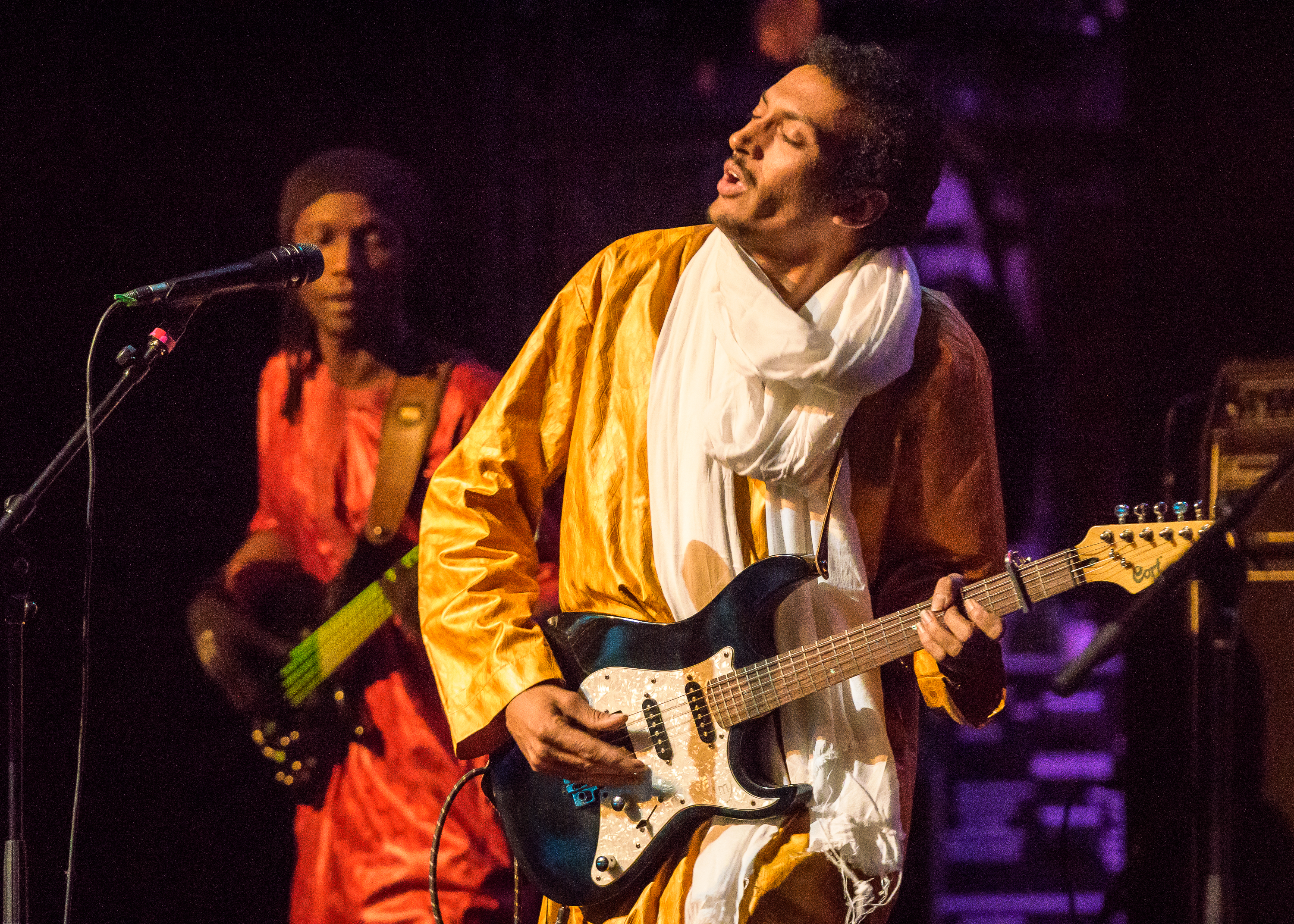 March 26, 2016 Apollo Theater New York, NY Concert presented by the World Music Institute. Bombino is from Niger.